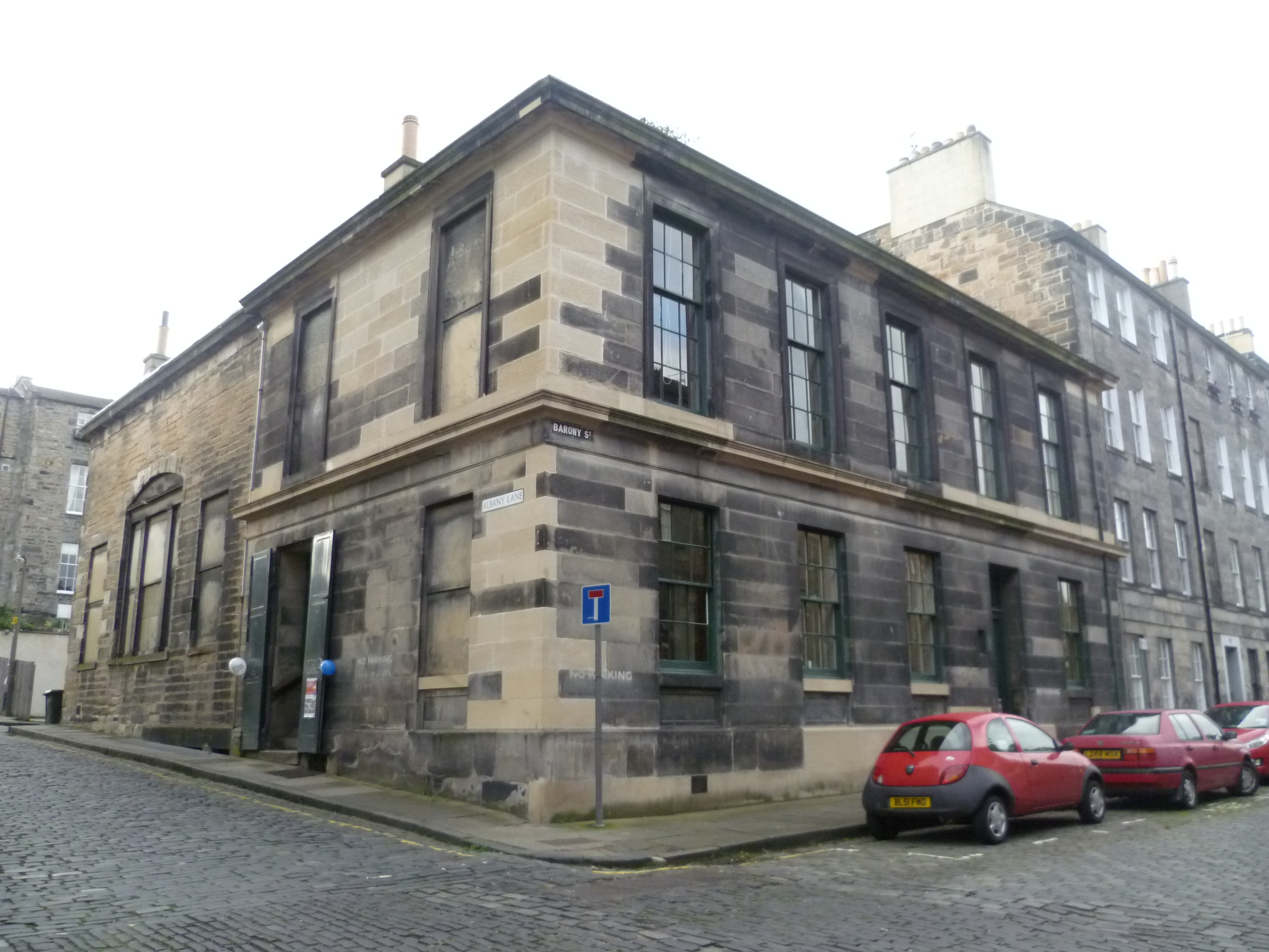 Meeting House of the Church of Christ, founded by Rev. John Glas in 1730. This building dates from 1835.